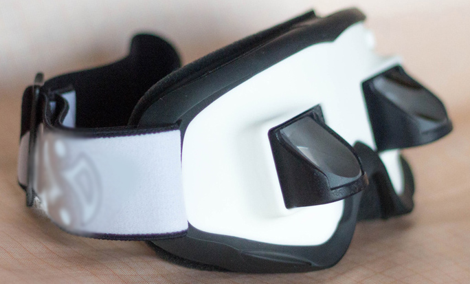 For inverting field of view - Для инверсии поля зрения